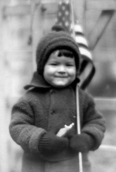 Photograph of Orson Welles at three years of age